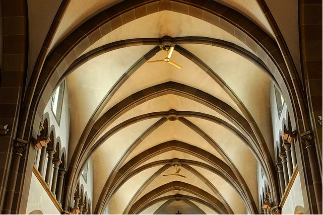 Ceiling fans used to destratify a large church